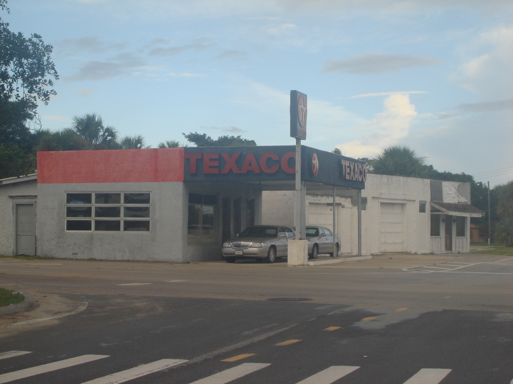 The old Texaco from the 1920's in Hobe Sound, FL